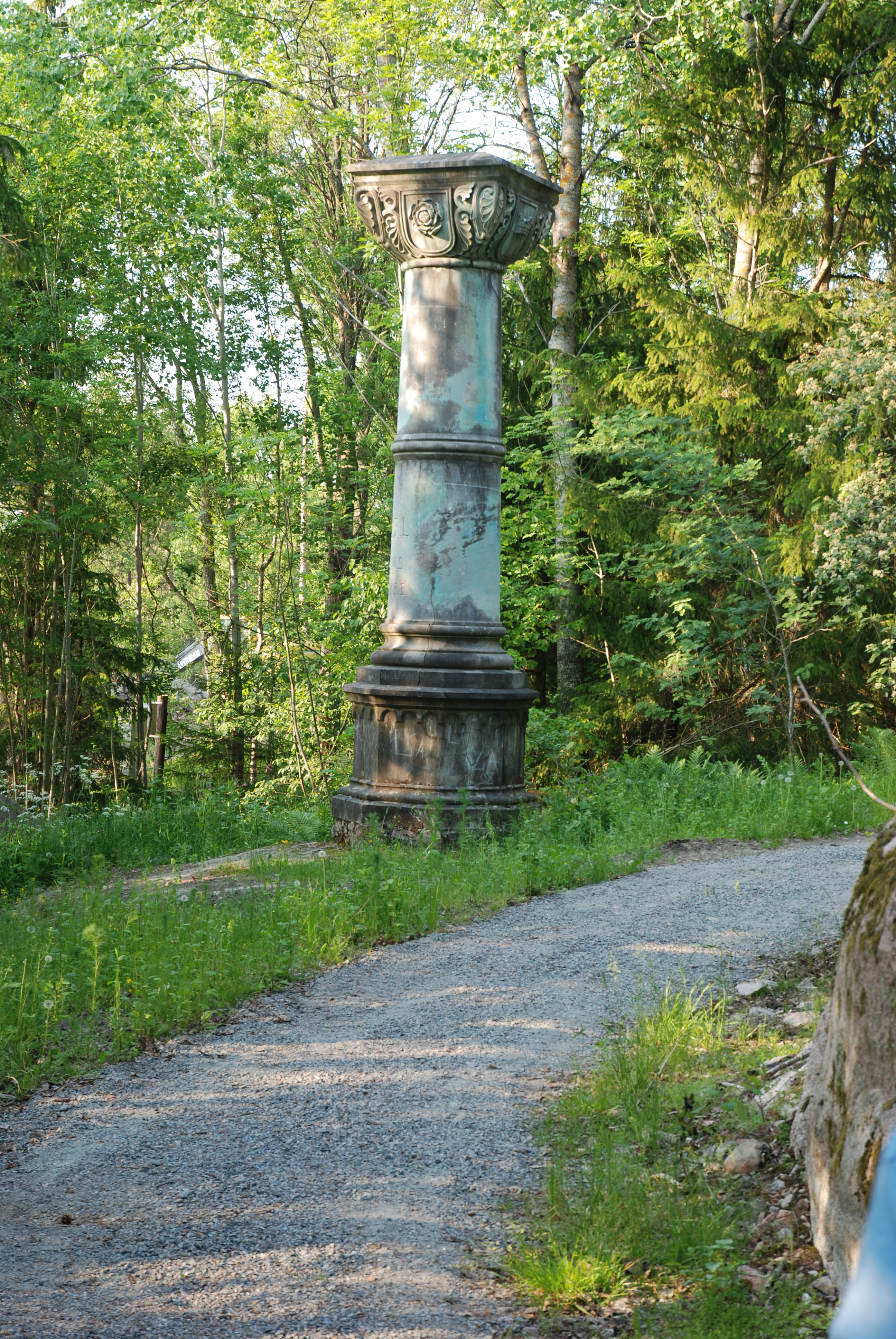 Column of Carrara marble, used for statue of Birger Jarl in Stockholm, Vätöberg